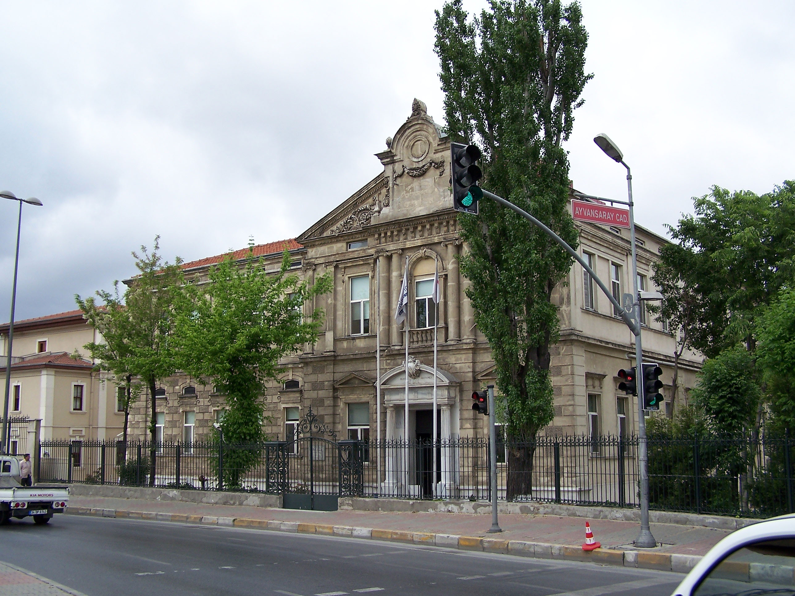 Musevi Hastanesi (Jewish hospital) in Balat, Fatih